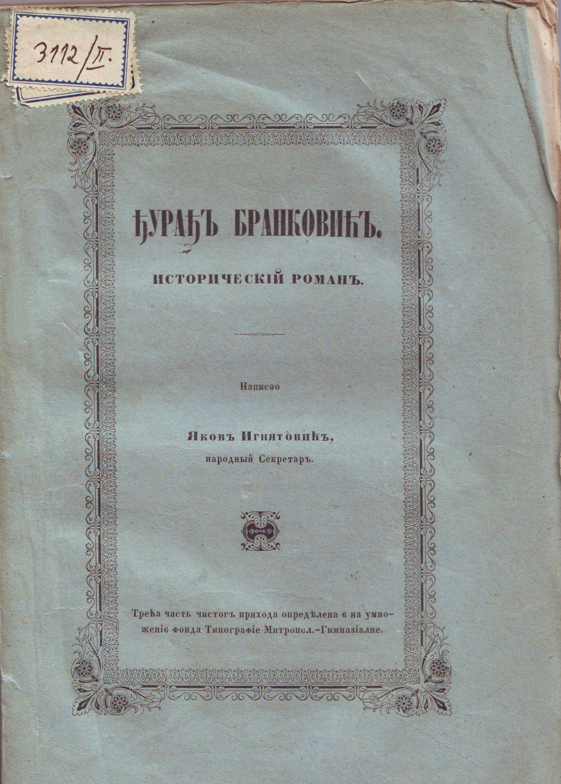 Cover of the historical novel Đurađ Branković (1859) by Jakov Jaša Ignjatović. Srpski (latinica): Naslovna strana istorijskog romana Ðurađ Branković (1859) Jakova Jaše Ignjatovića.